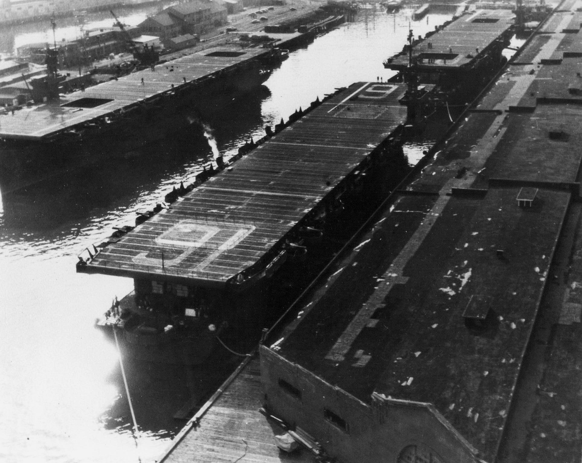 The U.S. escort carriers USS Makassar Strait (CVE-91) (nearer to the camera) and USS Thetis Bay (CVE-90) docked behind at Tacoma, Washington (USA). A third escort carrier is docked to the left.